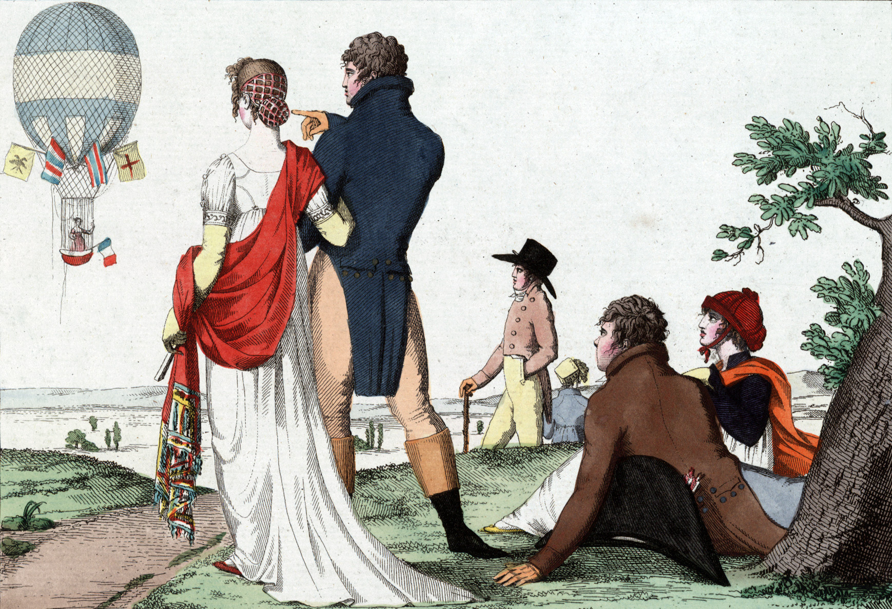 Early balloon flight. Spectators watching French balloonist Jeanne-Genevieve Garnerin (born 1779) ascending in a balloon on 28 March 1802. A few years earlier, Garnerin had been the first woman to ascend in a balloon without a male pilot. Artwork published in the 1870s in a historical Parisian fashion magazine. Title: Ascension de Madame Garnerin, le 28 mars 1802 Date Created/Published: A Paris : Chez Martinet, Libraire ..., [between 1874 and 1876] Medium: 1 print : etching, hand-colored. Summary: French fashion magazine caricature shows fashionably dressed spectators watching Jeanne-Geneviève Garnerin fly in a balloon. A few years earlier, Garnerin had been the first woman to ascend in a balloon without a male pilot. Reproduction Number: LC-DIG-ppmsca-02548 (digital file from original print) Rights Advisory: No known restrictions on publication. Call Number: LOT 13402, no. 38 [P&P] Repository: Library of Congress Prints and Photographs Division Washington, D.C. 20540 USA Notes: Title from item. Illus. from: Le goût du jour, chronique de la fashion ... Paris: 1874-1876, no. 8. From series: Caricatures parisiennes. Published in: The aeronauts / by Donald Dale Jackson. Alexandria, Va. : Time-Life Books, c1980, p. 49. Tissandier collection. Subjects: Garnerin, Jeanne-Geneviève,--b. 1779. Balloon ascensions--France--1800-1810. Balloons (Aircraft)--1800-1810. Format: Caricatures--French--1870-1880. Etchings--Hand-colored--1870-1880. Collections: Tissandier Collection Reproduction Number: LC-DIG-ppmsca-02548 (digital file from original print) Call Number: LOT 13402, no. 38 [P&P] Medium: 1 print : etching, hand-colored.